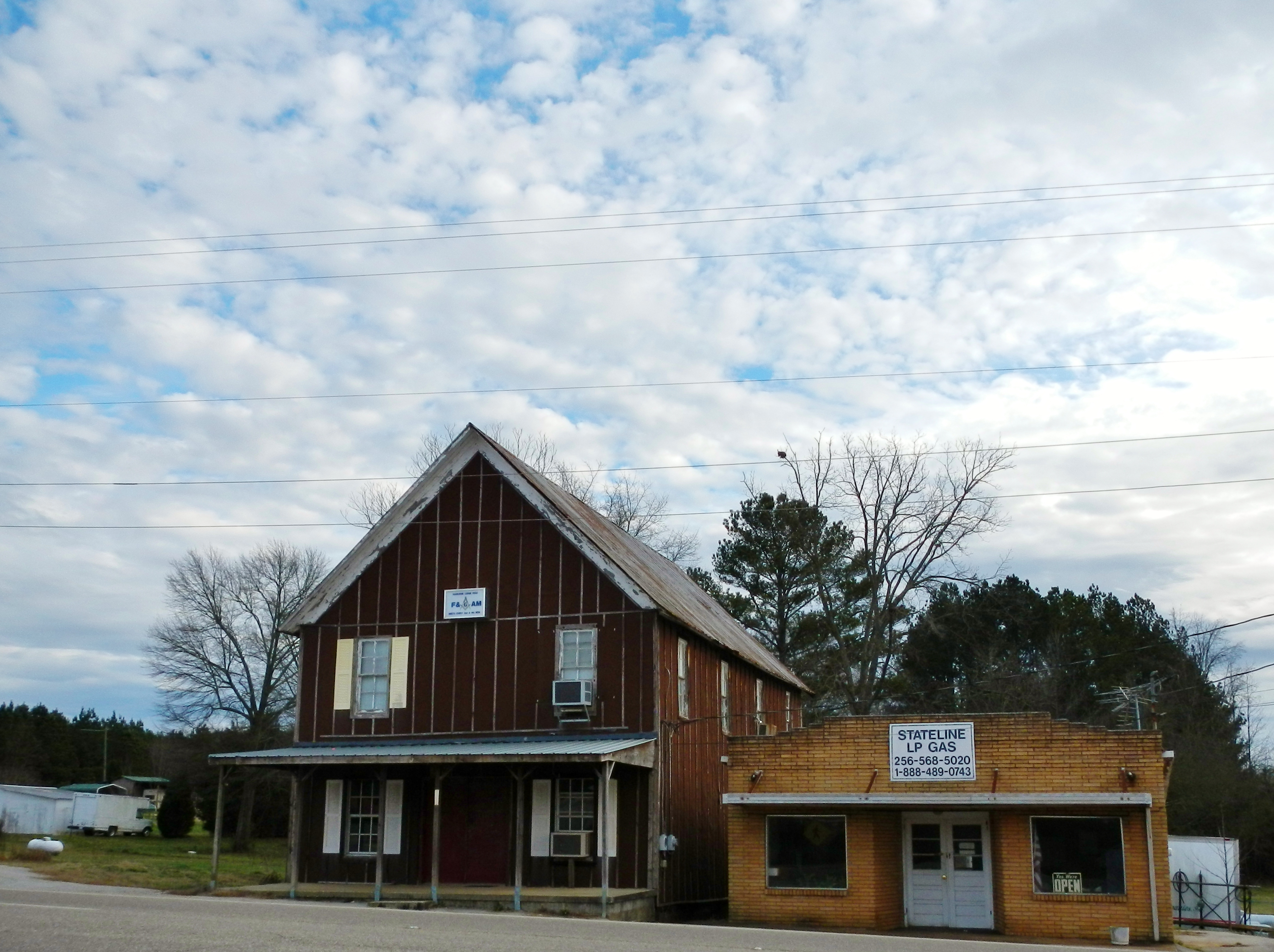 This is a photograph of Ranburne, Alabama.